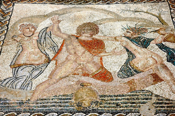 The nymphs abduct Hylas. Ancient Roman mosaic in Volubilis (Maroc)